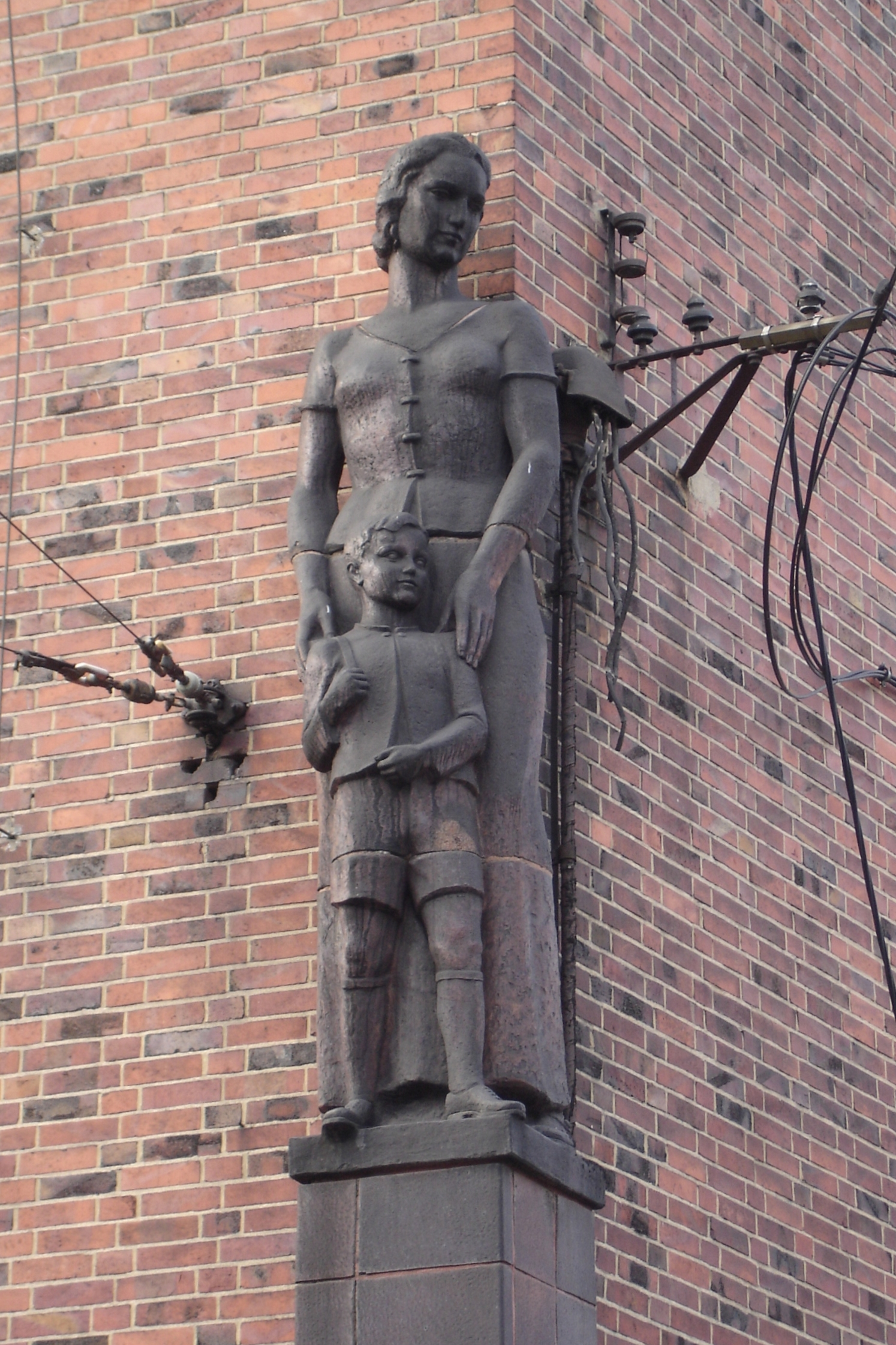 The sculpture by Walter Tuckermann, on the corner of the school at Tarnogórska 2 st. in Bytom, Poland.